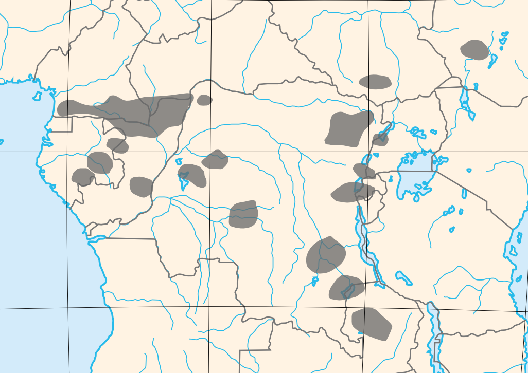 maps of distribution of African Pygmies